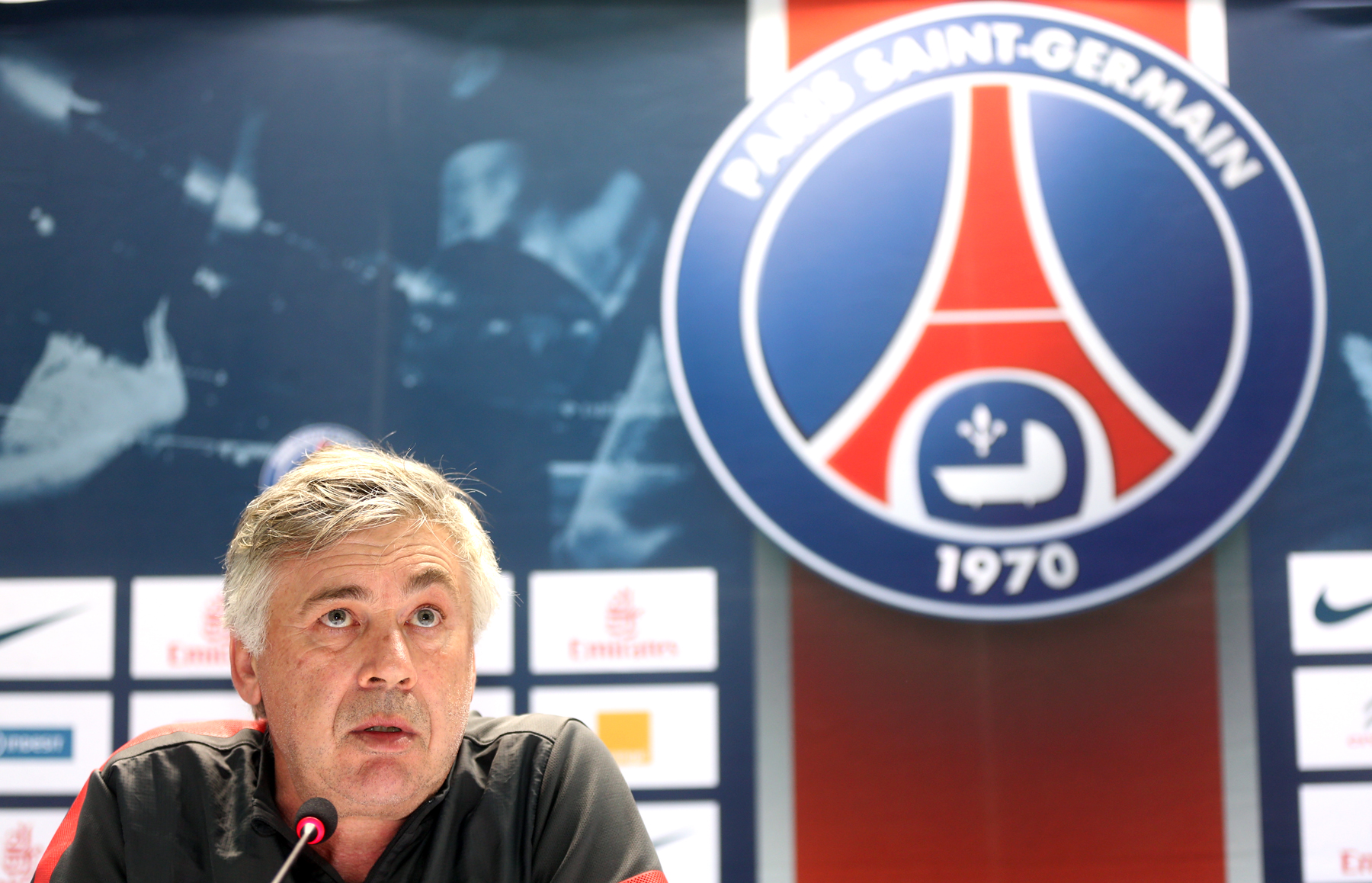 Paris Saint-Germain coach Carlo Ancelotti attends a Press conference in Doha.